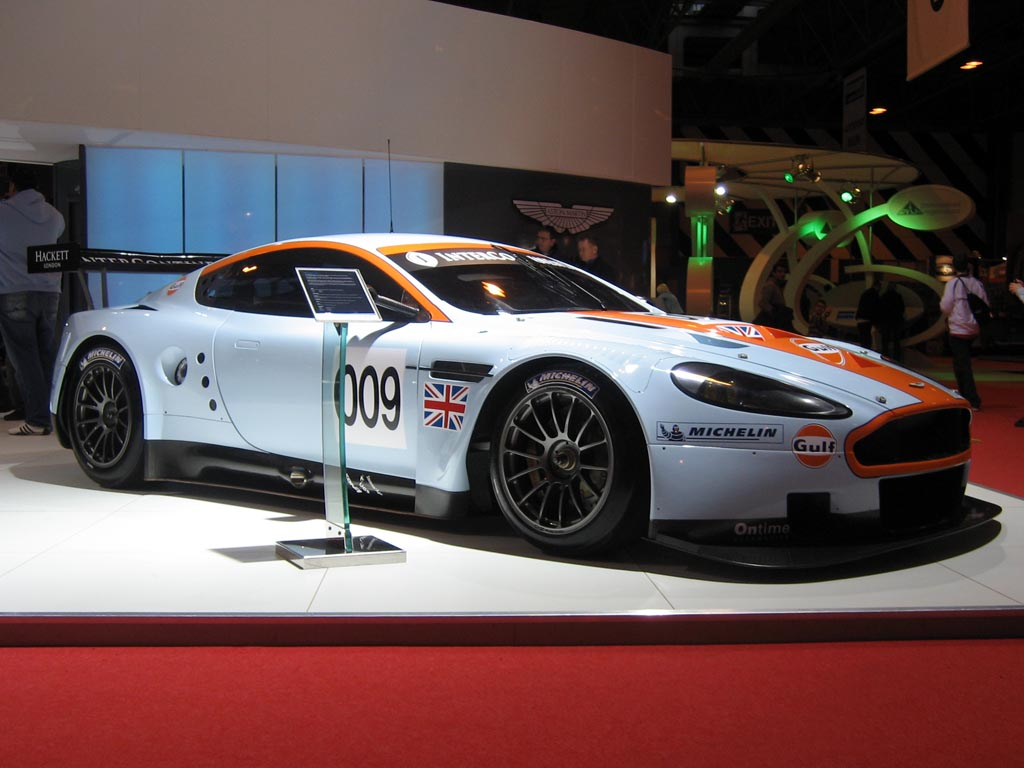 A 2008-spec Aston Martin DBR9